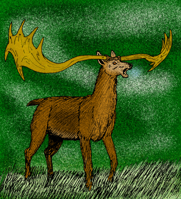 Reconstruction of the Pliocene deer Libralces gallicus, of France.